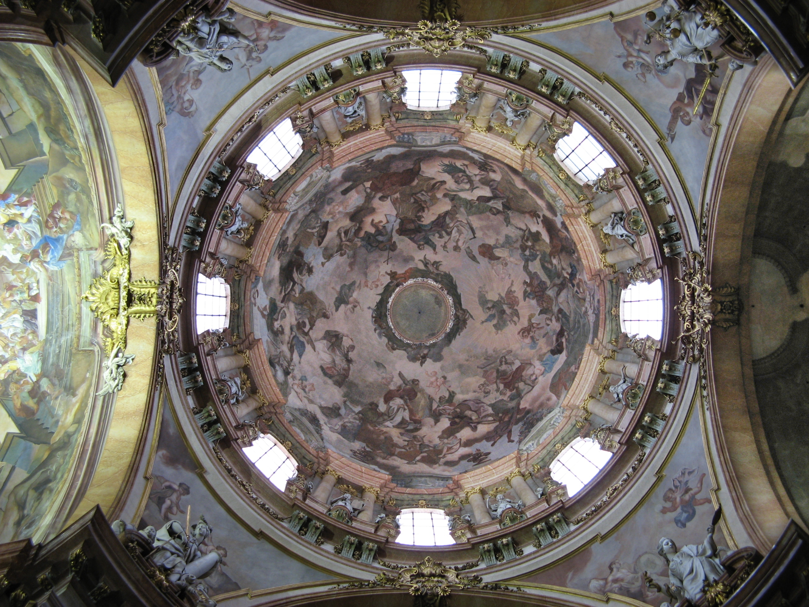 Church of St Nicholas of Lesser Town in Prague, ceiling of the dome.